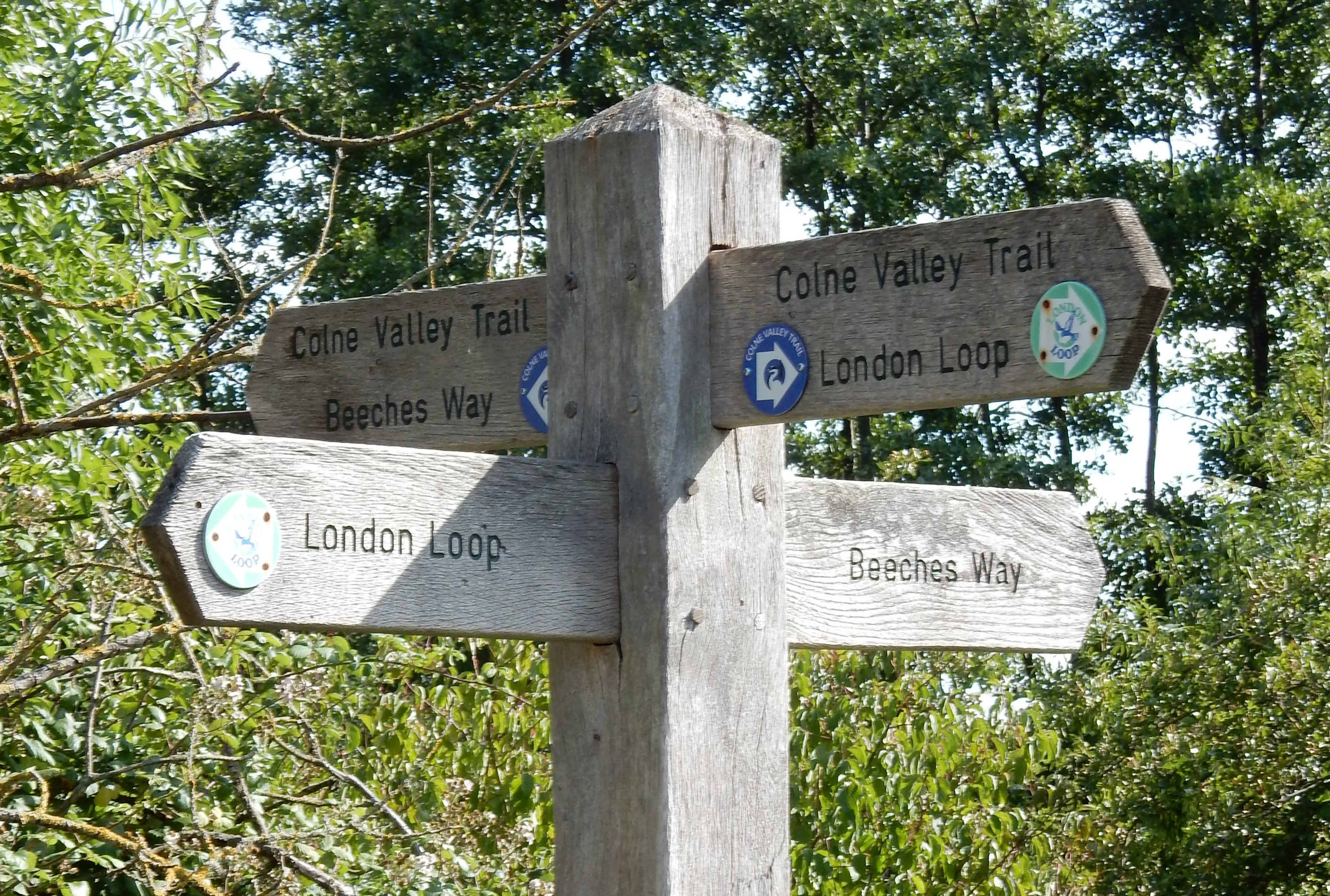 Trout Lane Footpath signpost in Yiewsley